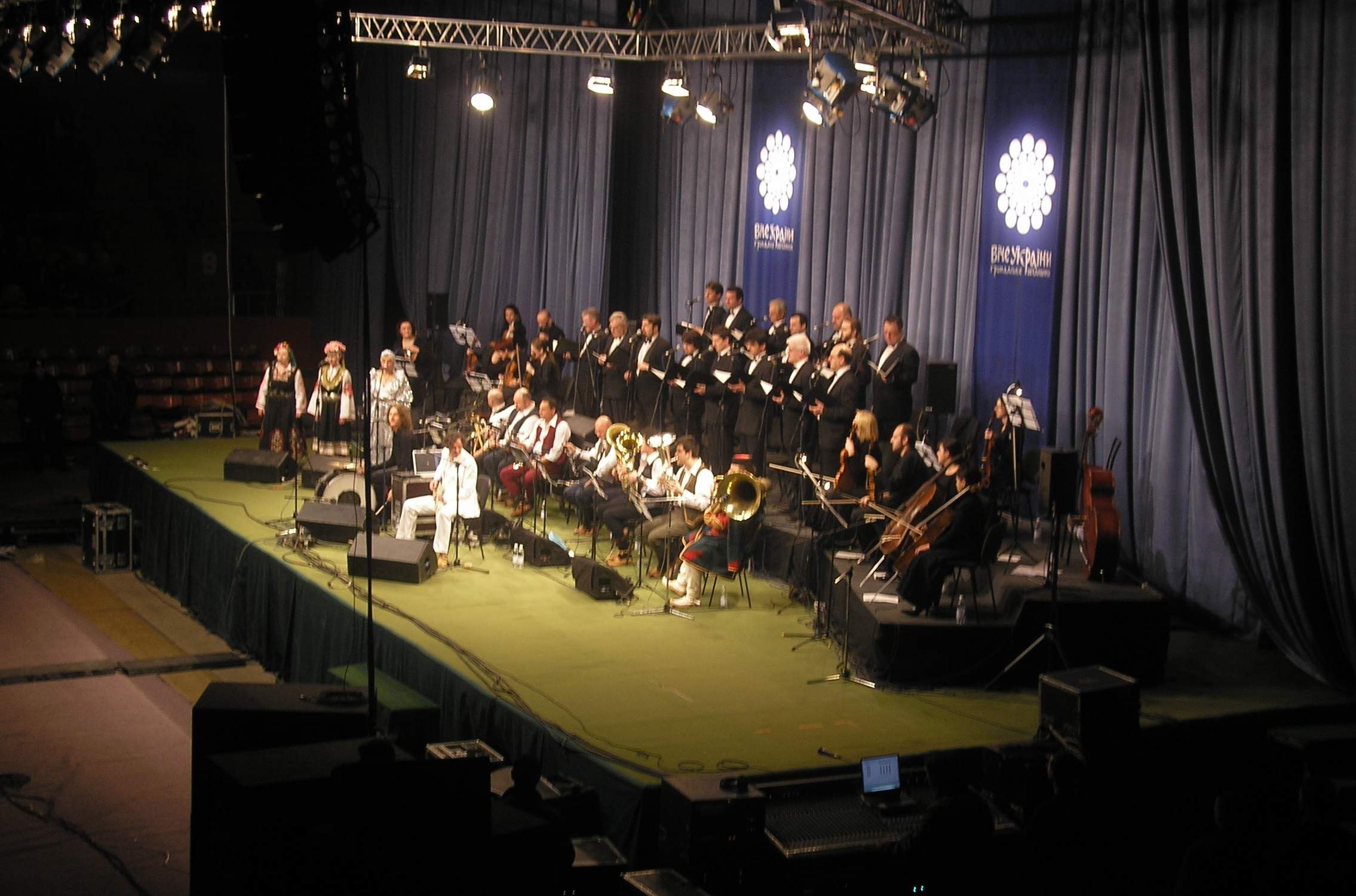 Goran Bregović Wedding and Funeral Orchestra in Donetsk. March 15 2006.